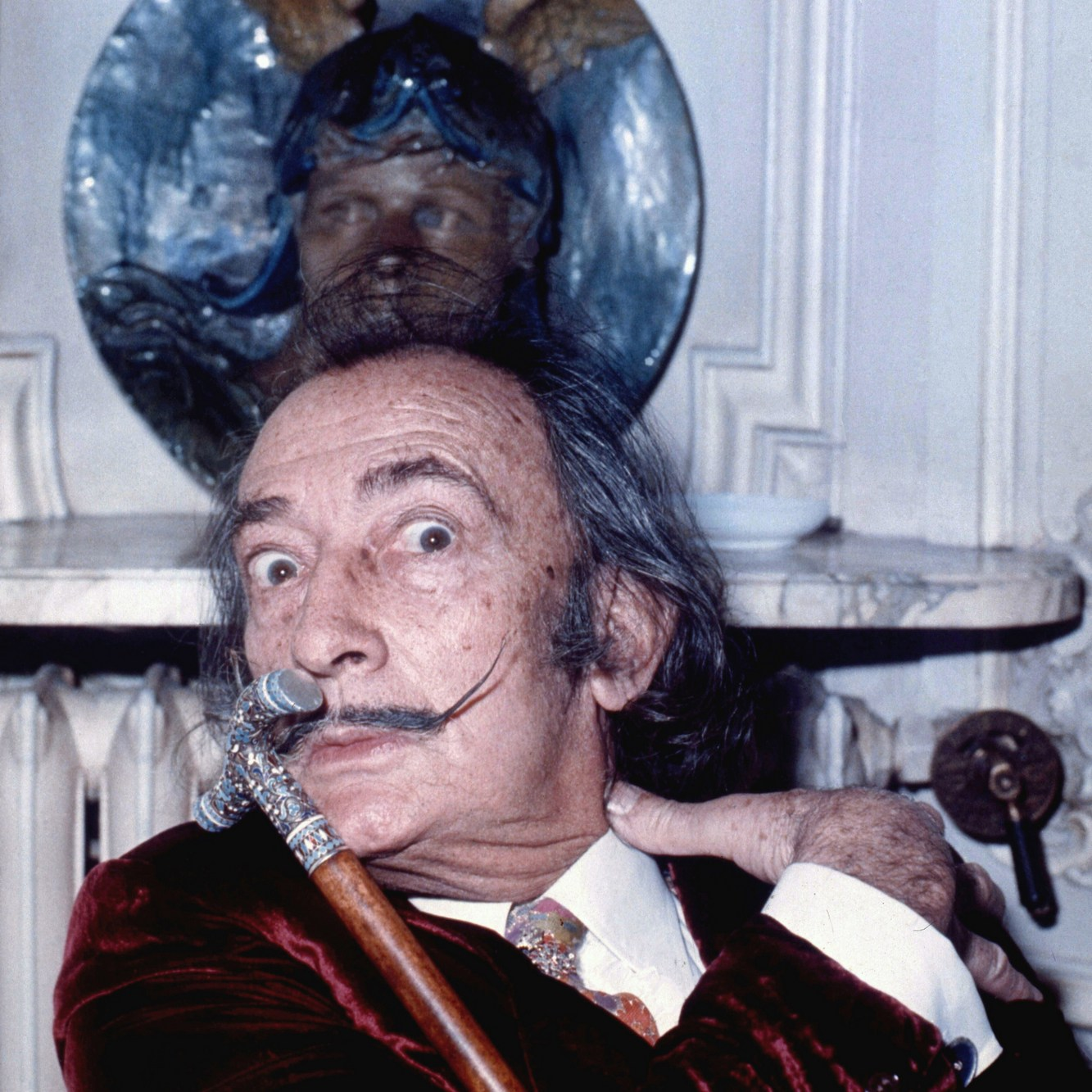 Portrait of Salvador Dali, taken in Hôtel Meurice, Paris